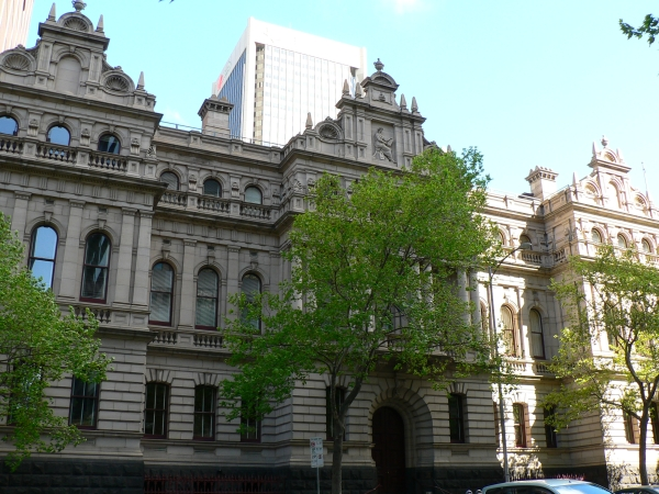 Supreme Court Offices. Lonsdale Street, Melbourne.